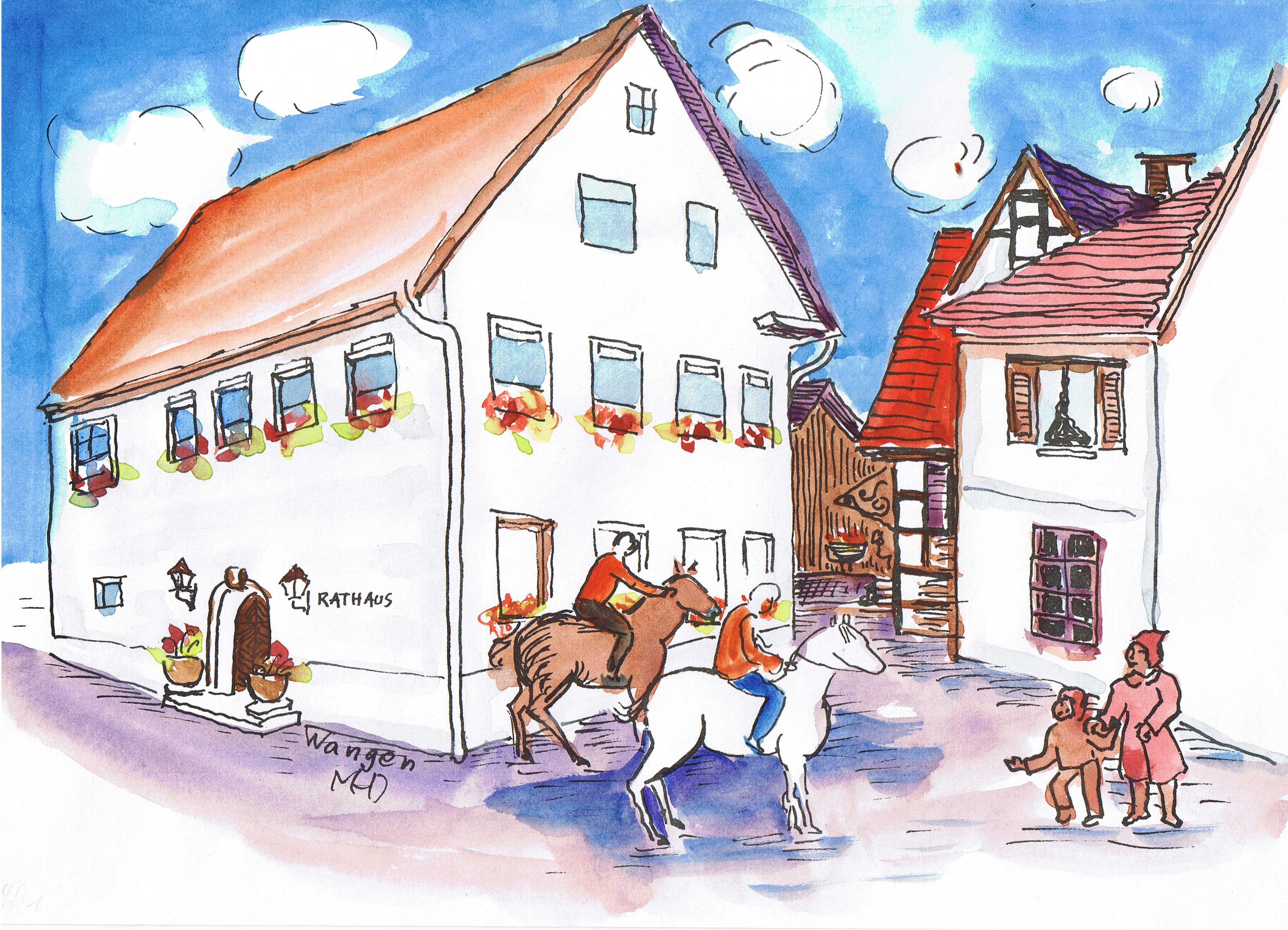 Wangen near Göppingen, with horses, water color, 30 x 20 cm